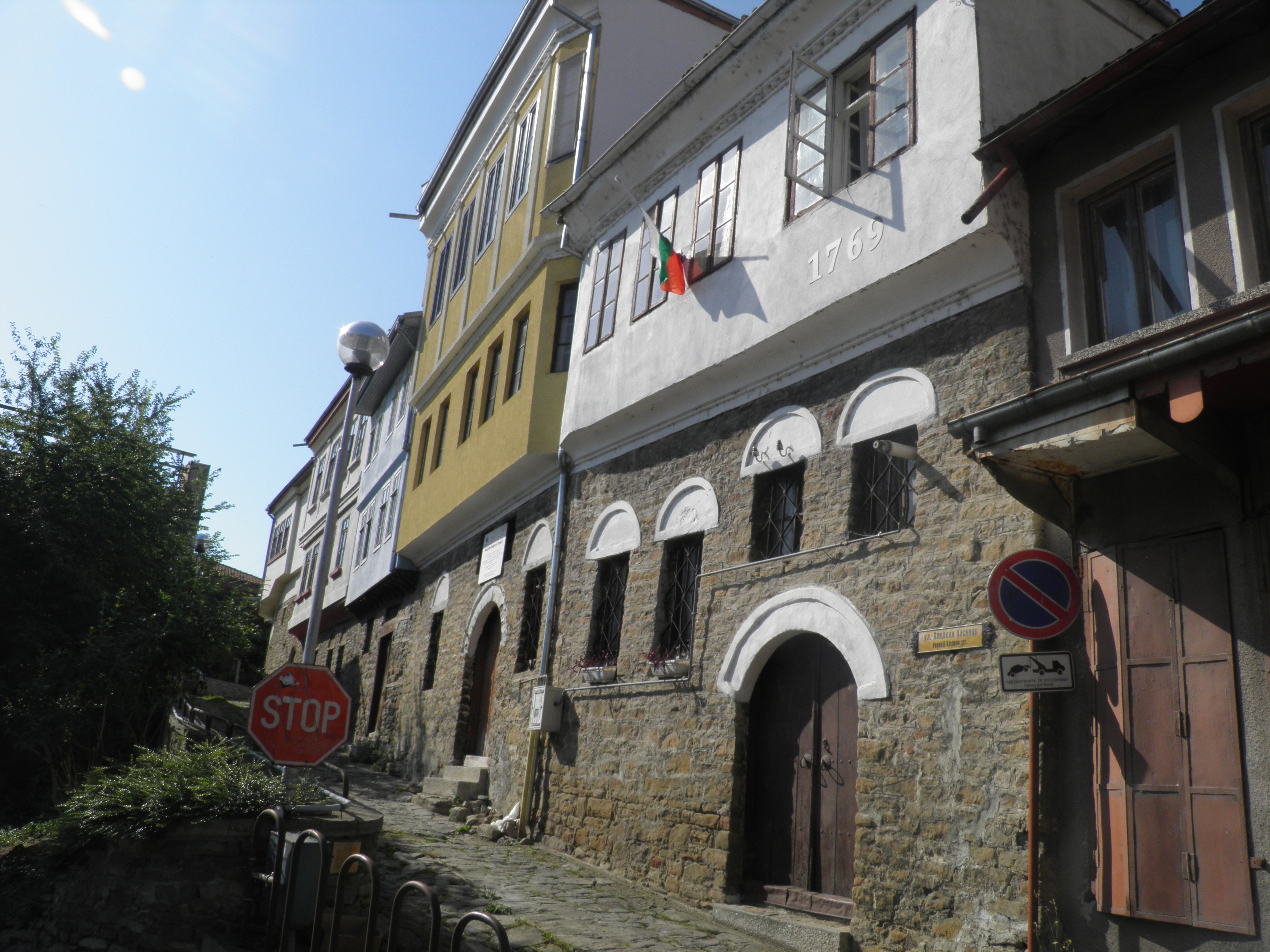 Architecture Veliko Tarnovo